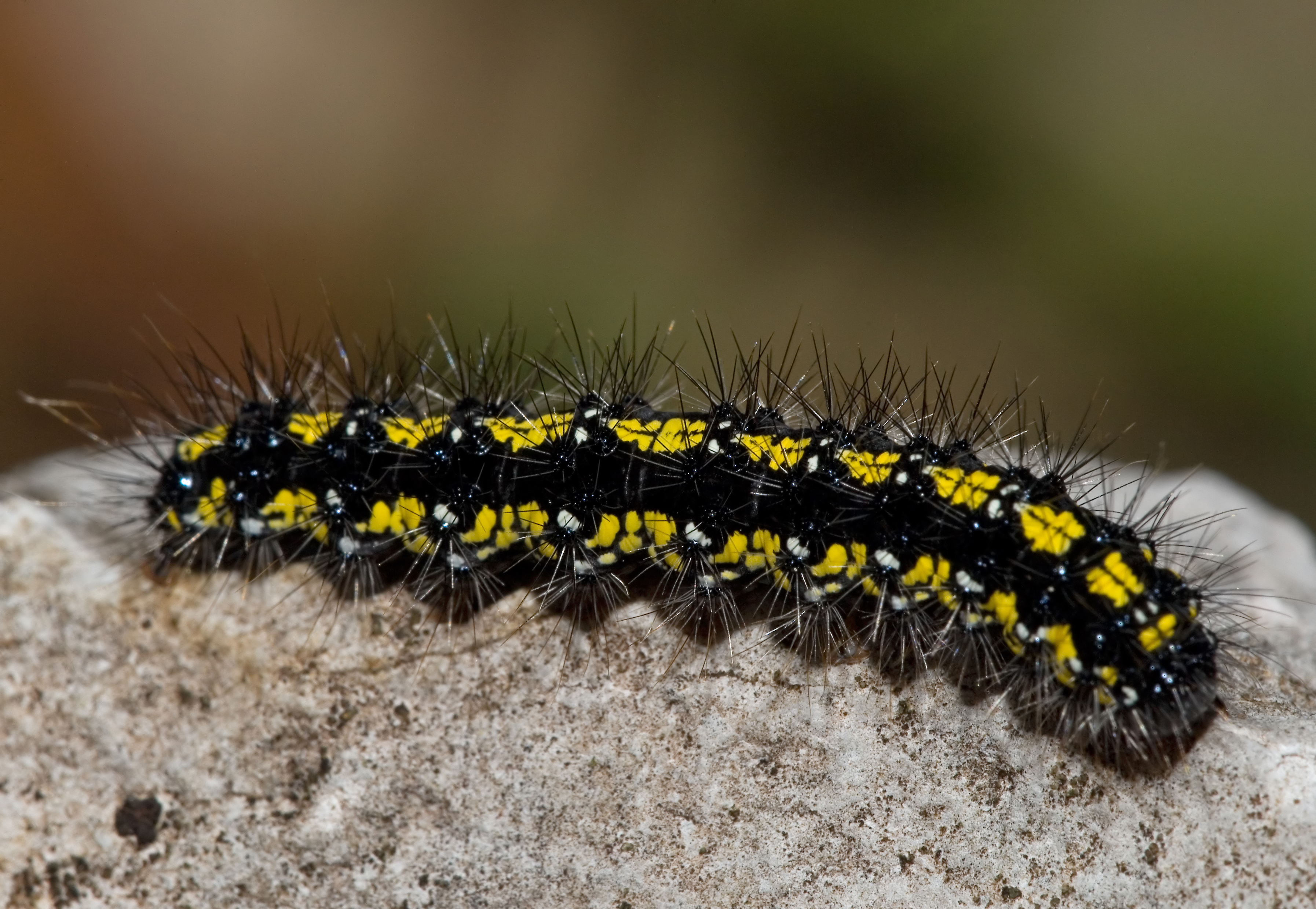 caterpillar of Callimorpha dominula